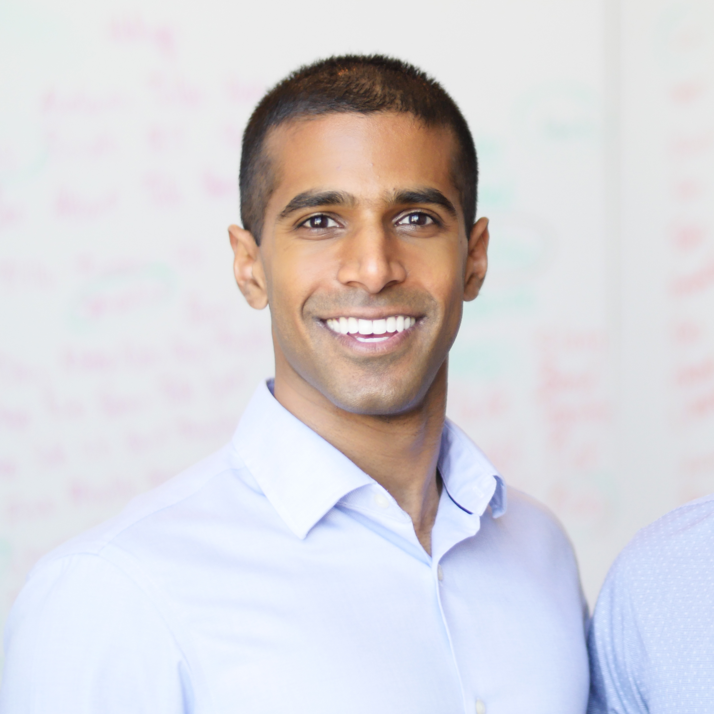 Picture of Nikil Viswanathan